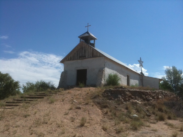 Original photo of Penitente church on top of hill in La Puebla NM